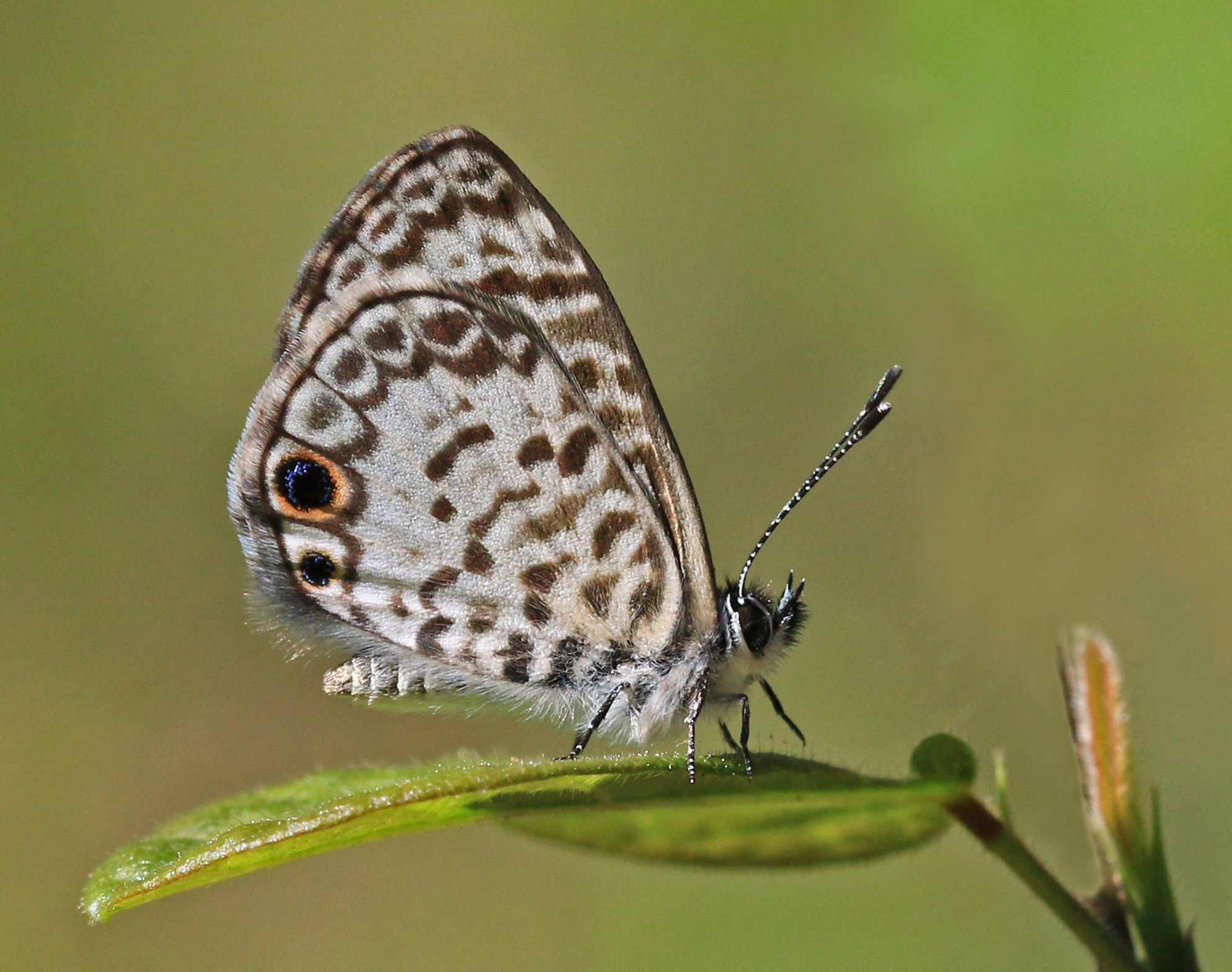 Cassius blue (Leptotes cassius theonus), Cuba